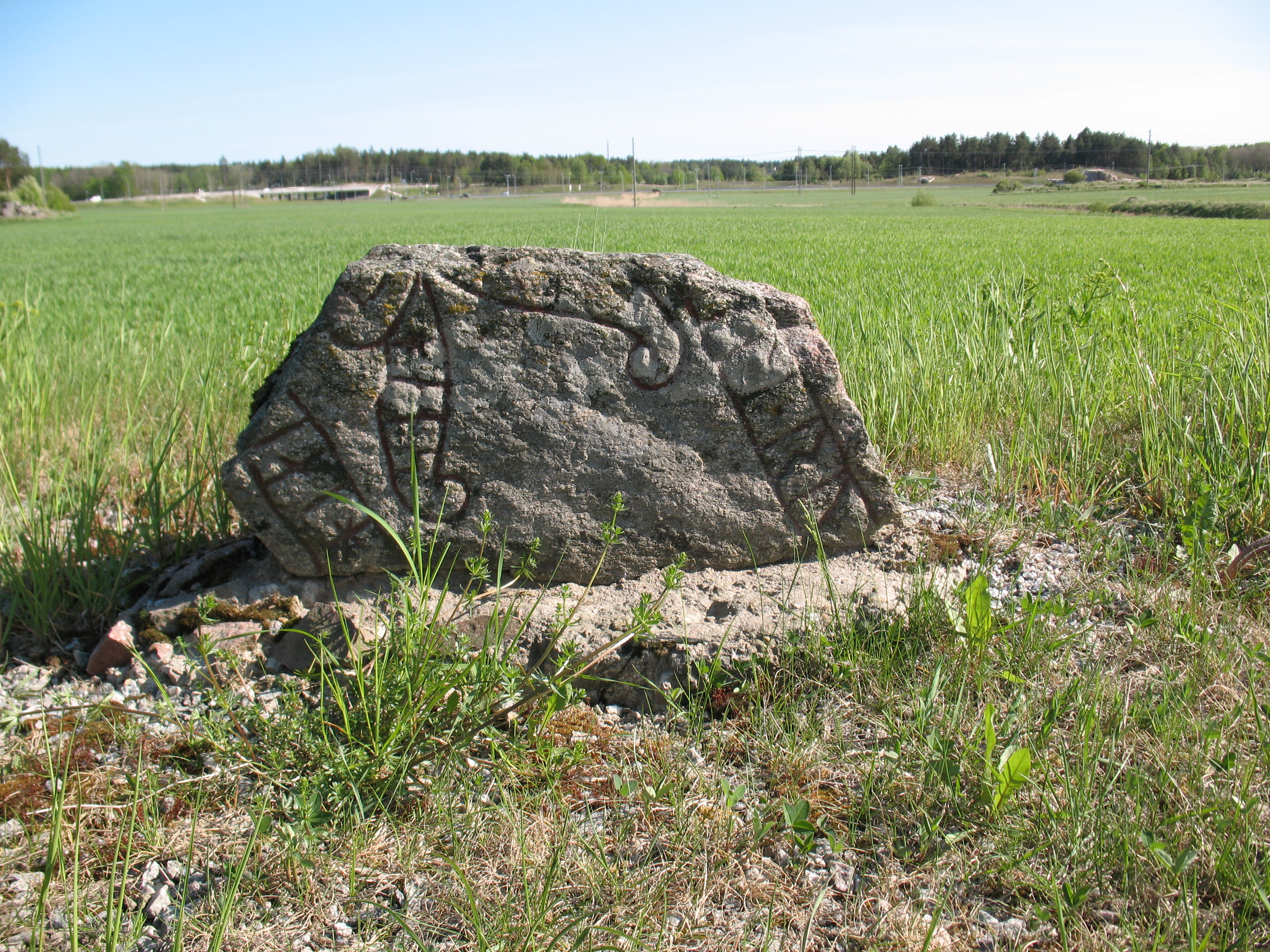 Runestone U 139 at Broby, Täby.